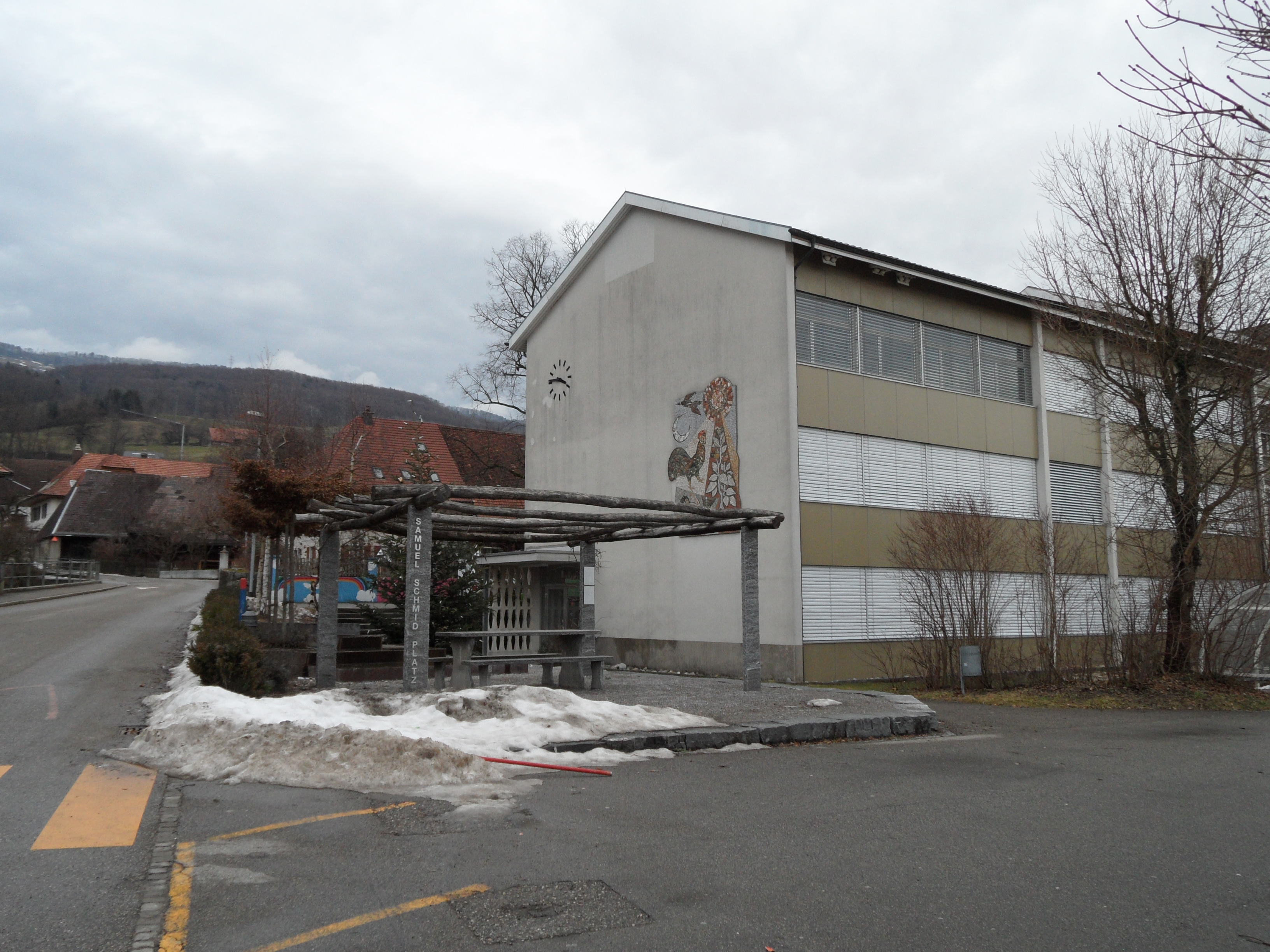 Samuel-Schmid-Platz (Samuel Schmid square) and school building in Attiswil, canton of Bern, Switzerland.